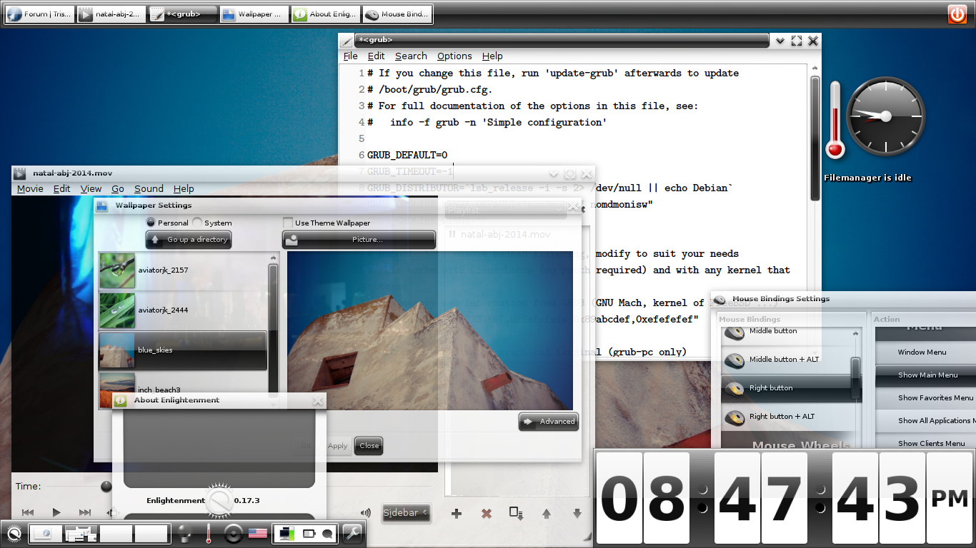 Screenshot of E17, with the Black&White theme, with a few GTK+2 apps using the ported theme.